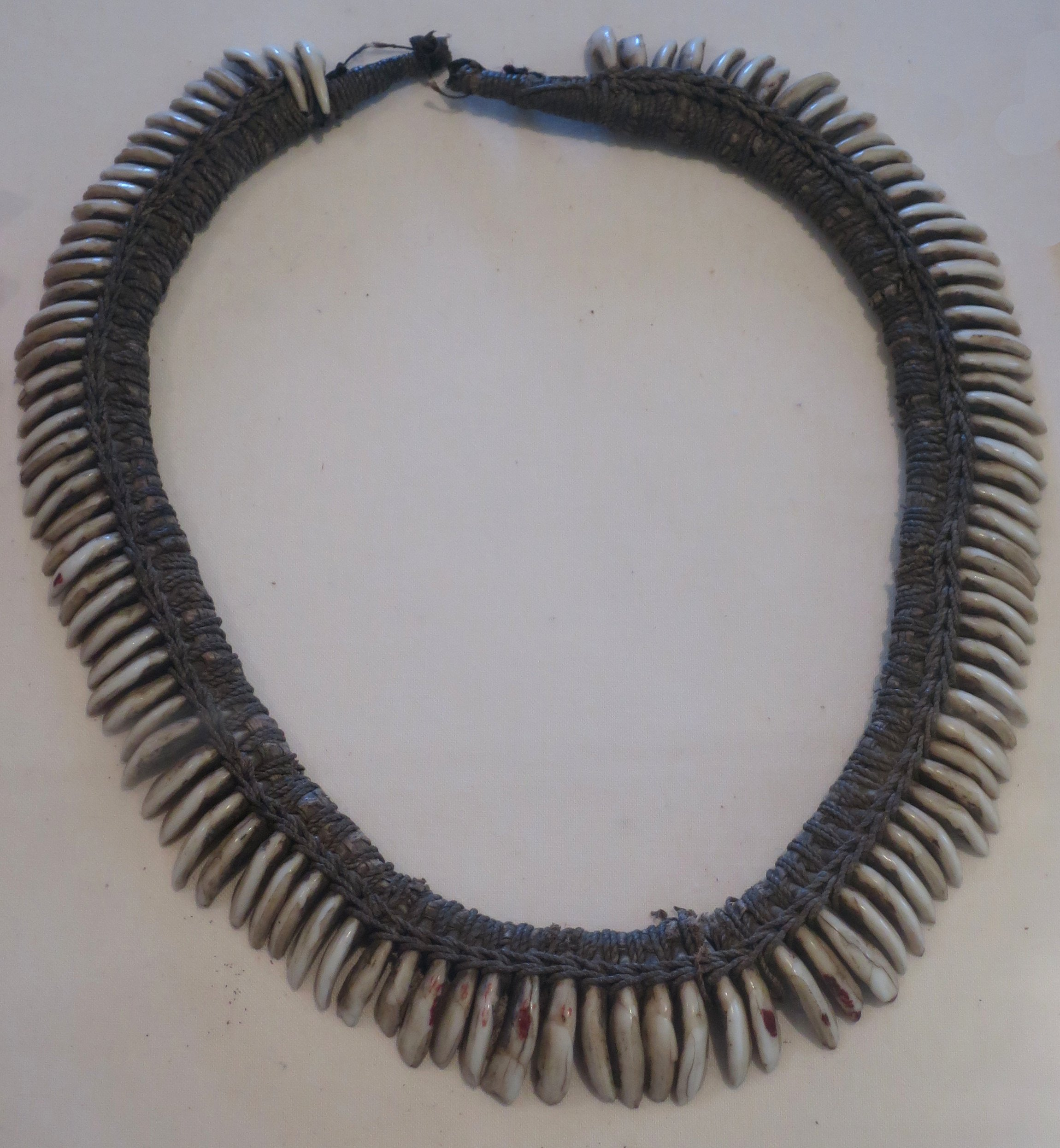 Lei niho ʻīlio, dogs' teeth and olona (Touchardia latifolia) fiber, Bailey House Museum